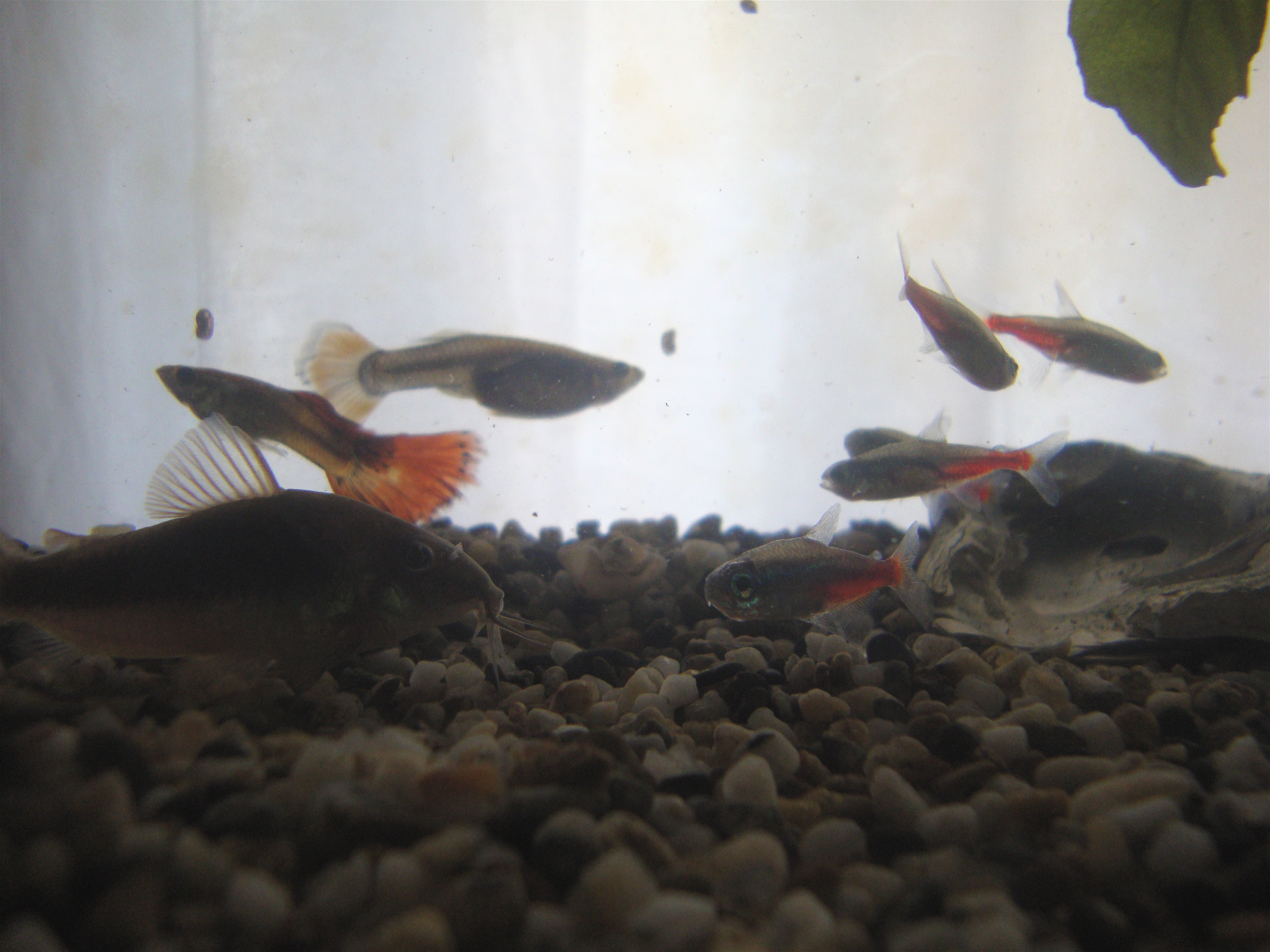 South-American aquarium comunity. There are guppys (Poecilia reticulata), a catfish (Corydoras aeneus) and neon tetras (Paracheirodon innesi)